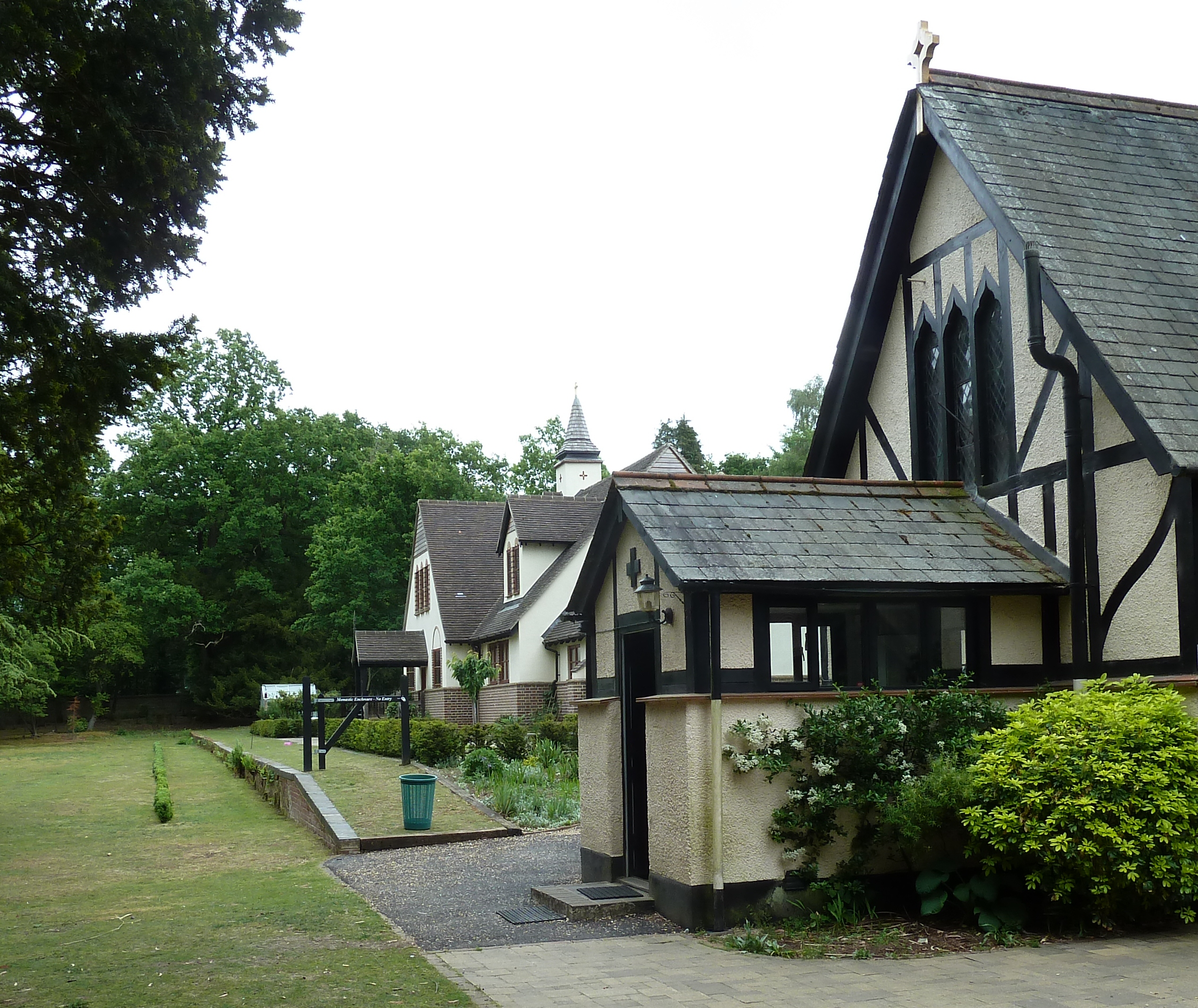 Brotherhood house of St Edward the Martyr monastery, incorporating the remains of Brookwood South railway station, Brookwood Cemetery, Surrey